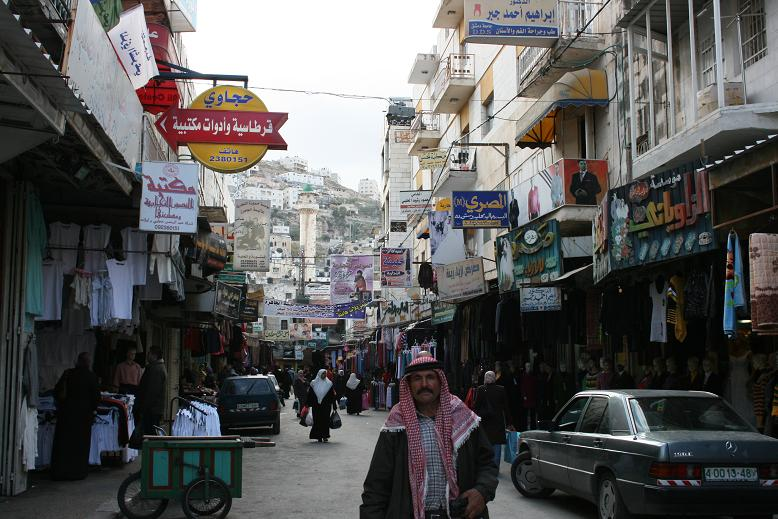 A street in Nablus leading towards the Old City. The minaret of Al-Nasr mosque can be seen in the center backdrop.